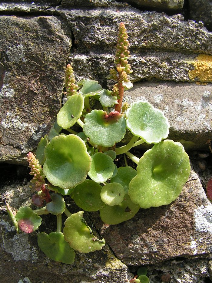 Pennywort or navelwort (Umbilicus rupestris). Tapeley Park, Instow, North Devon.